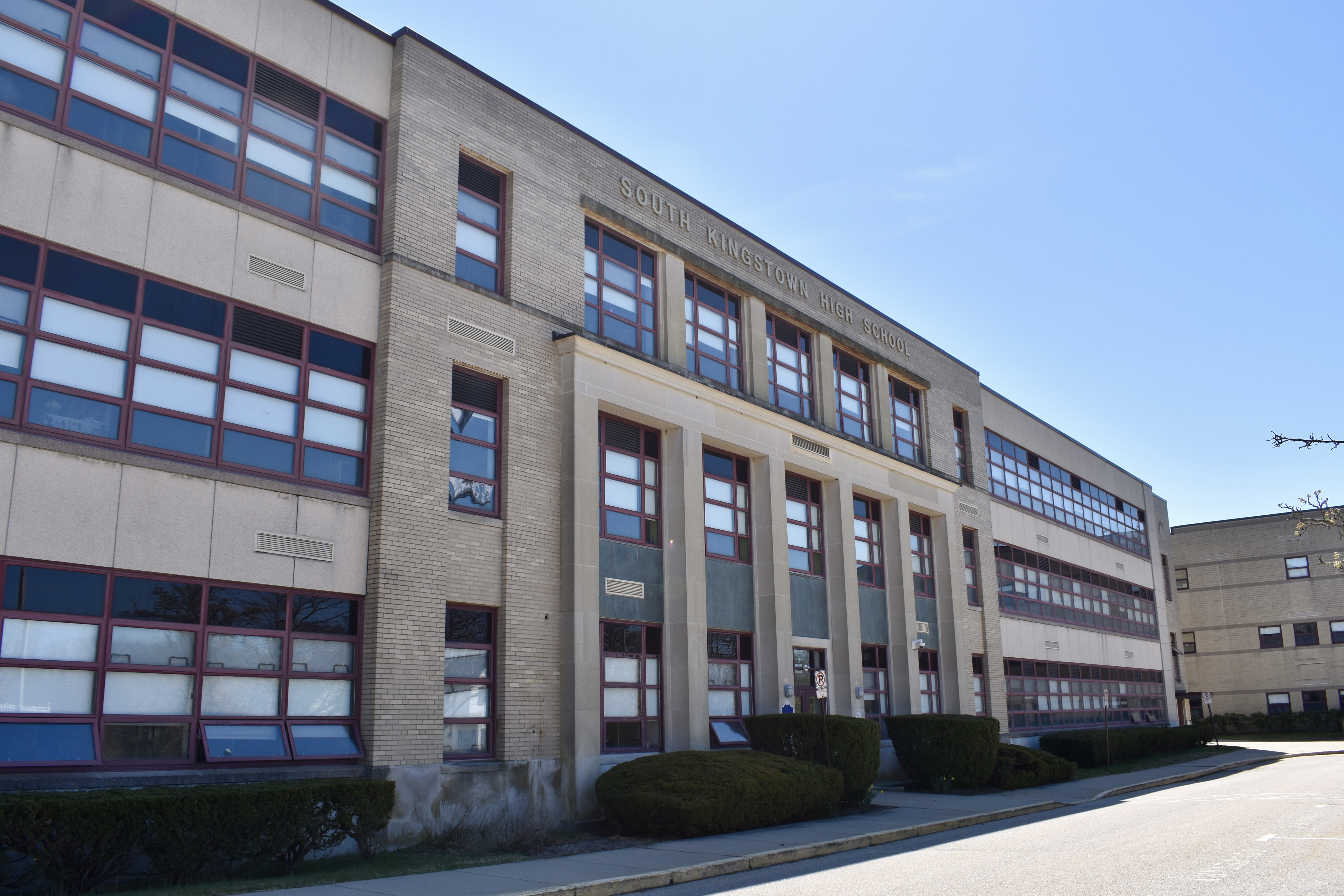 This is the front entrance of South Kingstown High School. This photo was taken during the COVID-19 shutdown, classes were being held virtually.